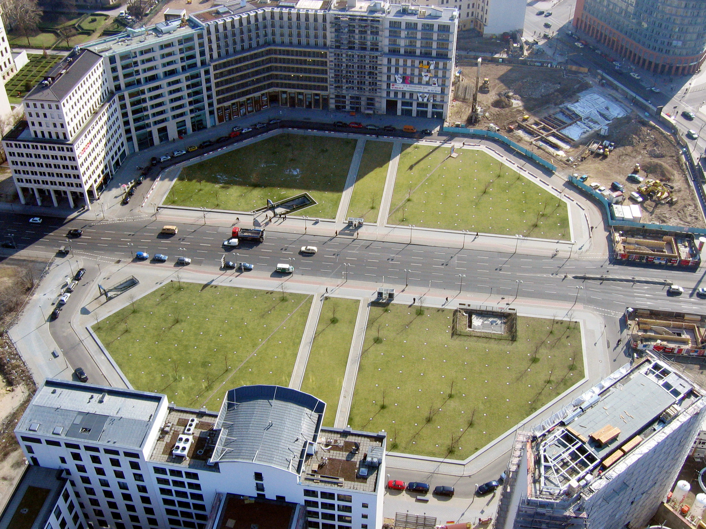 Berlin - the Leipziger Platz in 2004 seen from captive balloon